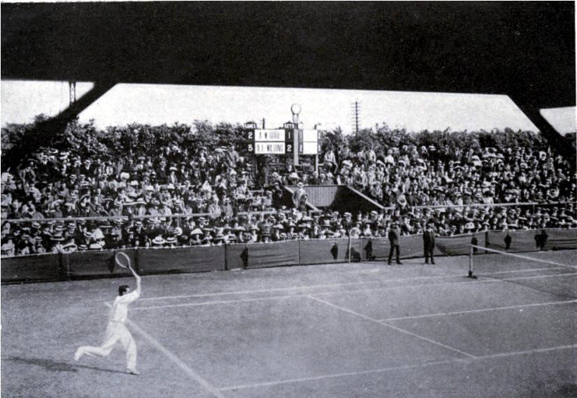 Original description: "The last stroke: My challenge round against Arthur Gore at Wimbledon, 1910"